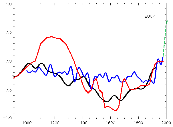 IPCC 1990, Mann 1999 and Moberg 2005 data overlaid. (red) IPCC hand-digitised from IPCC 1990 figure 7.1c (note: it has been assumed that the tickmarks on the y axis are in units of °C and that the middle of the three represents zero). (blue) Mann from ftp://ftp.ncdc.noaa.gov/pub/data/paleo/contributions_by_author/jones2004/jonesmannrogfig5.txt National Climatic Data Center with National Centers for Environmental Information (black) Moberg from Nature (journal) (green dashed line) Central England temperatures to 2007 overlaid from Jones et al. 2009 page 34 fig. 7.